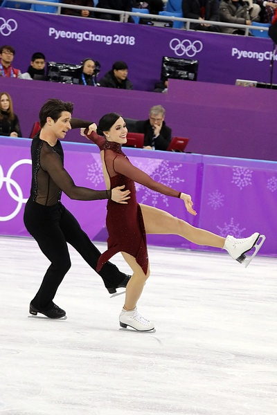 Tessa Virtue and Scott Moir at the 2018 Winter Olympic Games in PyeongChang